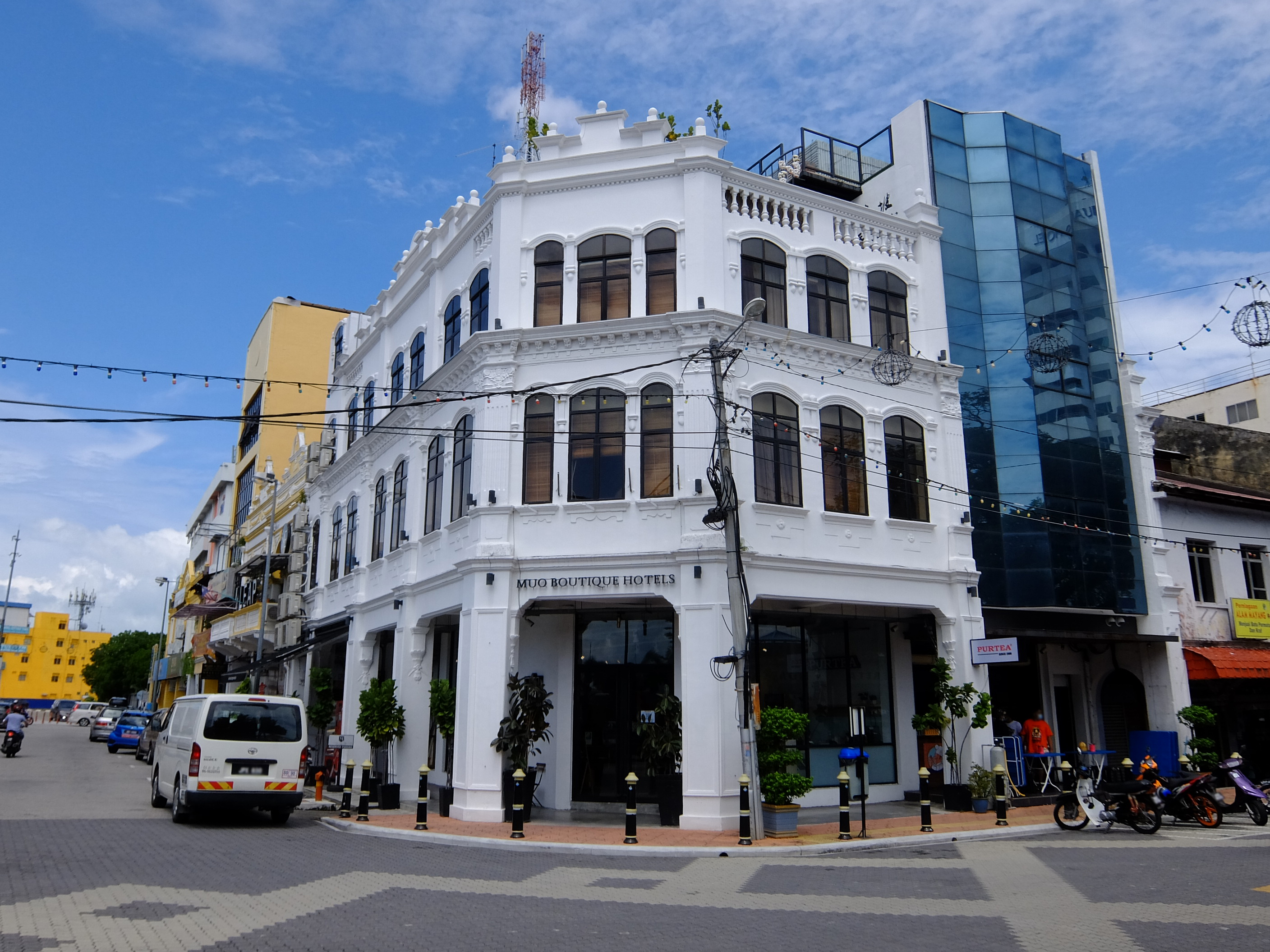 Muo Boutique Hotel, Bandar Maharani, Muar, Johor, Malaysia